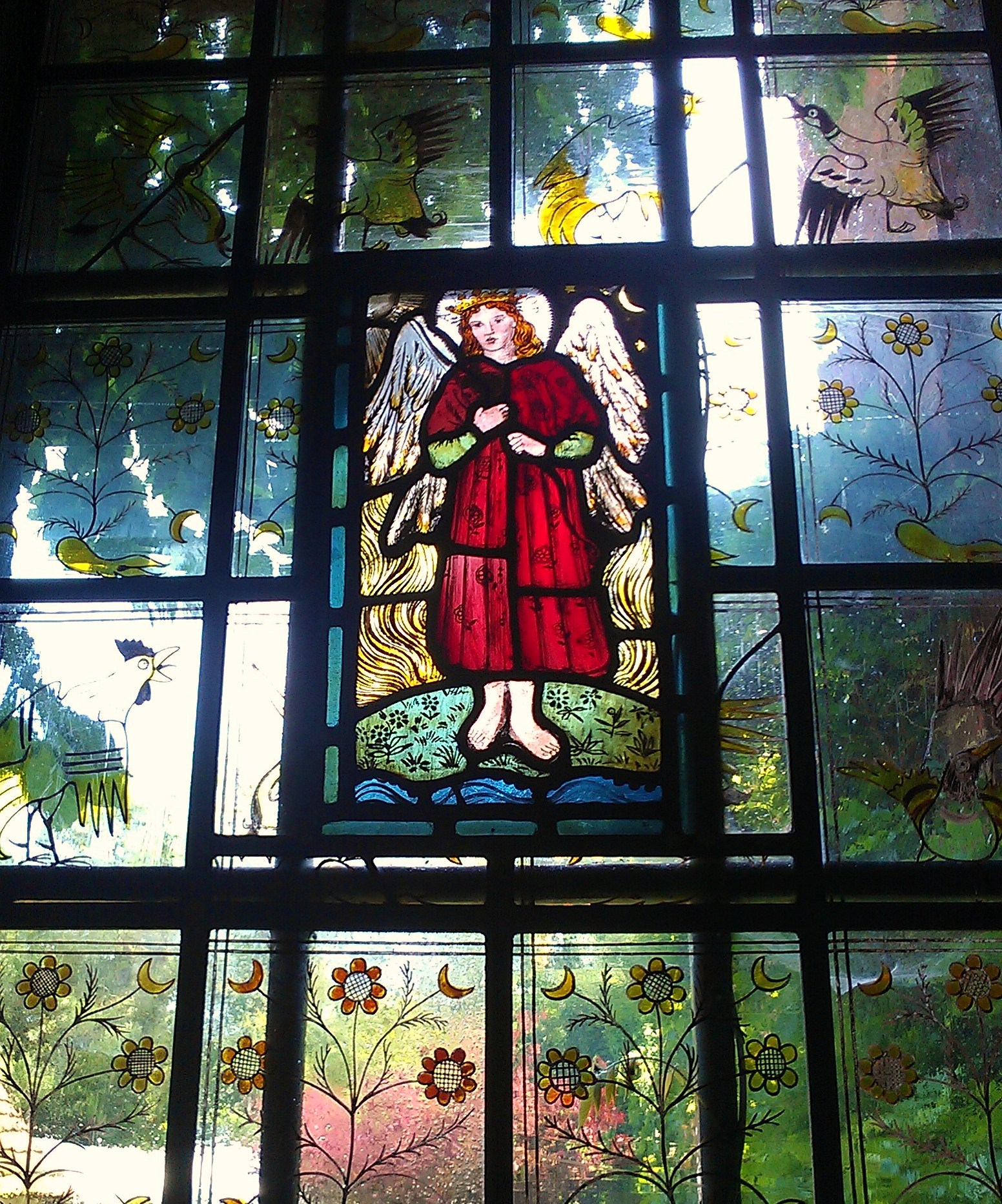 A stained glass window depicting the theme of "Love" at the Red House in Upton, Bexleyheath, Greater London.